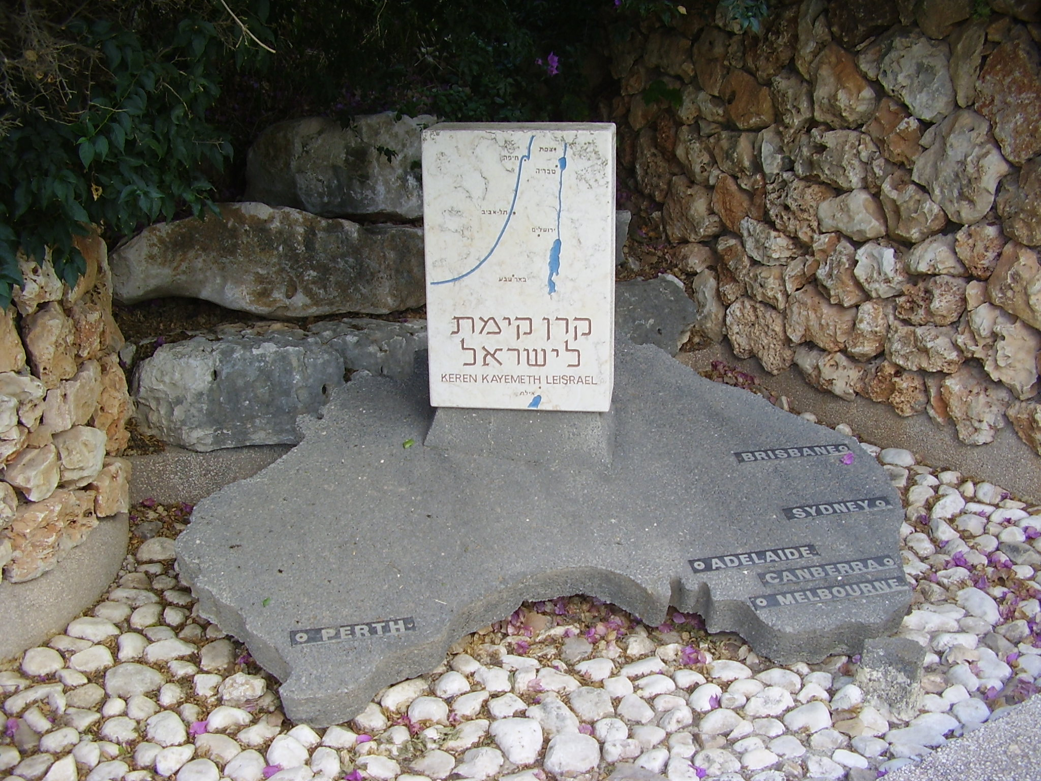 JNF box in Australia Park in Misgav